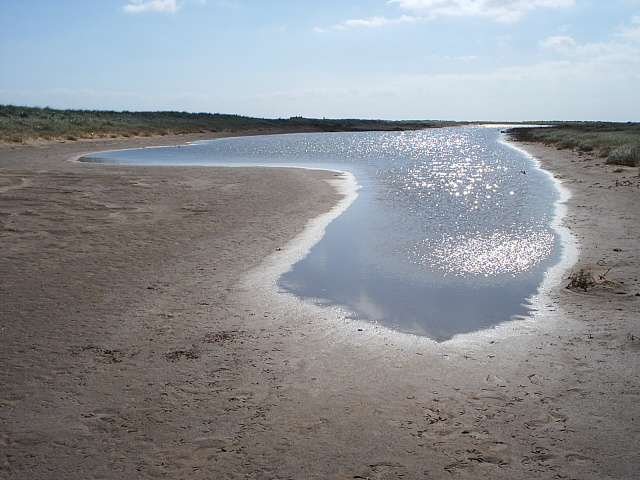 Gibraltar Point National Nature Reserve. This is one of the slowly drying up pools of water in the Nature reserve